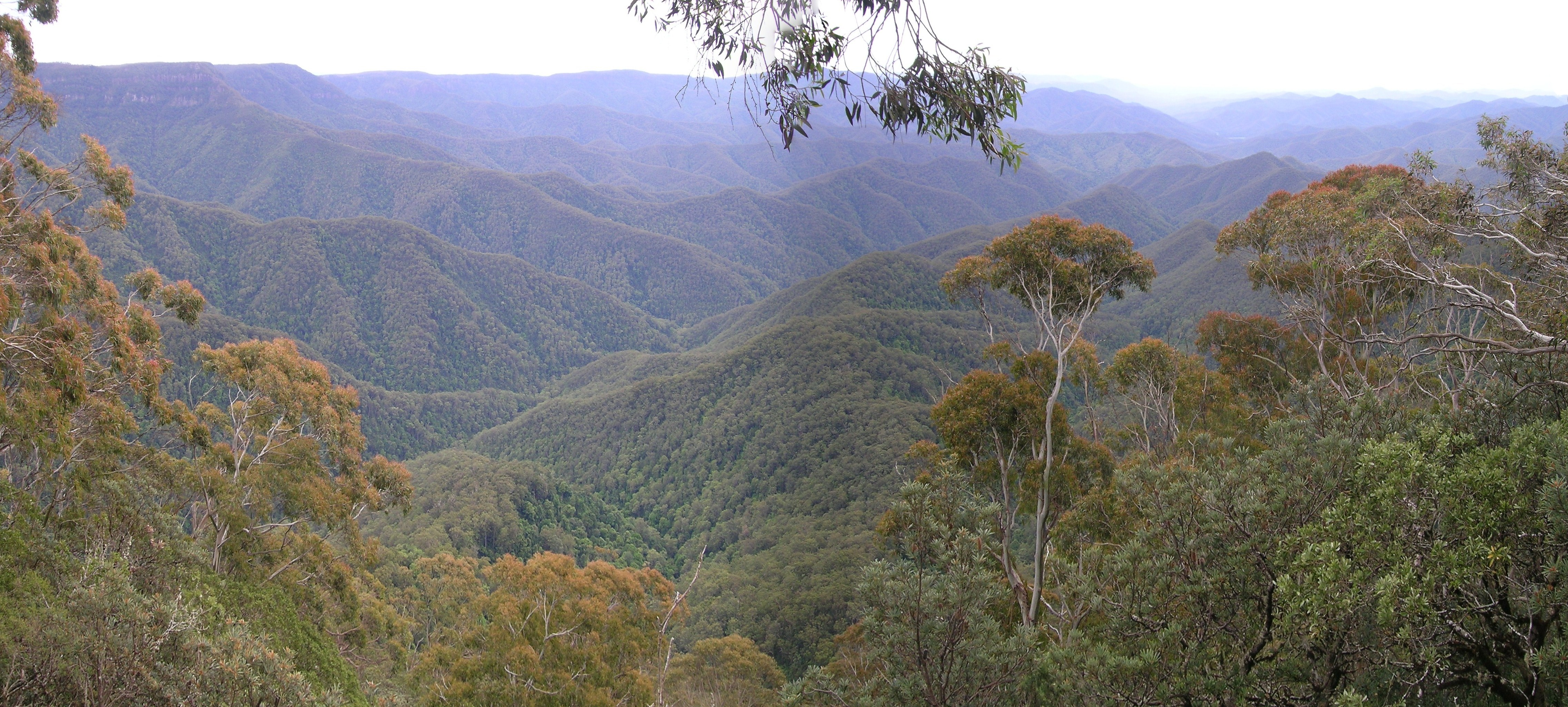 Point Lookout, New England National Park, NSW